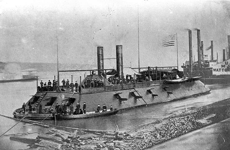 USS Cairo 1862Photographed in the Mississippi River area during 1862, with a boat alongside her port bow, crewmen on deck and other river steamers in the background.